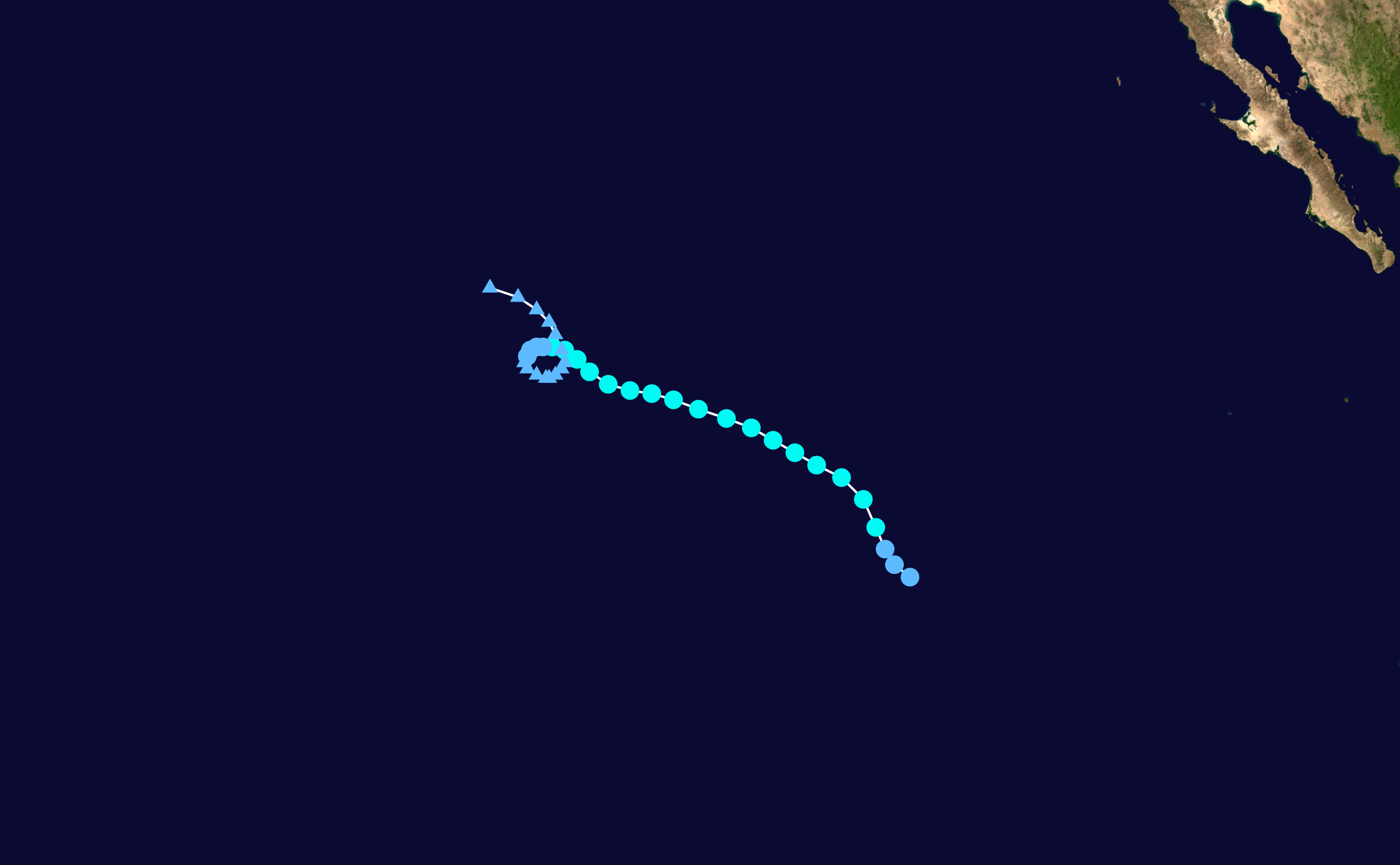 Track map of Tropical Storm Enrique of the 2015 Pacific hurricane season. The points show the location of the storm at 6-hour intervals. The colour represents the storm's maximum sustained wind speeds as classified in the Saffir–Simpson scale (see below), and the shape of the data points represent the nature of the storm, according to the legend below. Saffir–Simpson scale Tropical depression≤38 mph≤62 km/h Category 3111–129 mph178–208 km/h Tropical storm39–73 mph63–118 km/h Category 4130–156 mph209–251 km/h Category 174–95 mph119–153 km/h Category 5≥157 mph≥252 km/h Category 296–110 mph154–177 km/h Unknown Storm type Tropical cyclone Subtropical cyclone Extratropical cyclone / Remnant low / Tropical disturbance / Monsoon depression